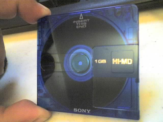 Sony Hi-MD 1GB disc